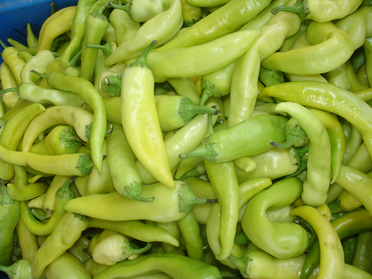 Banana Peppers from Armenia